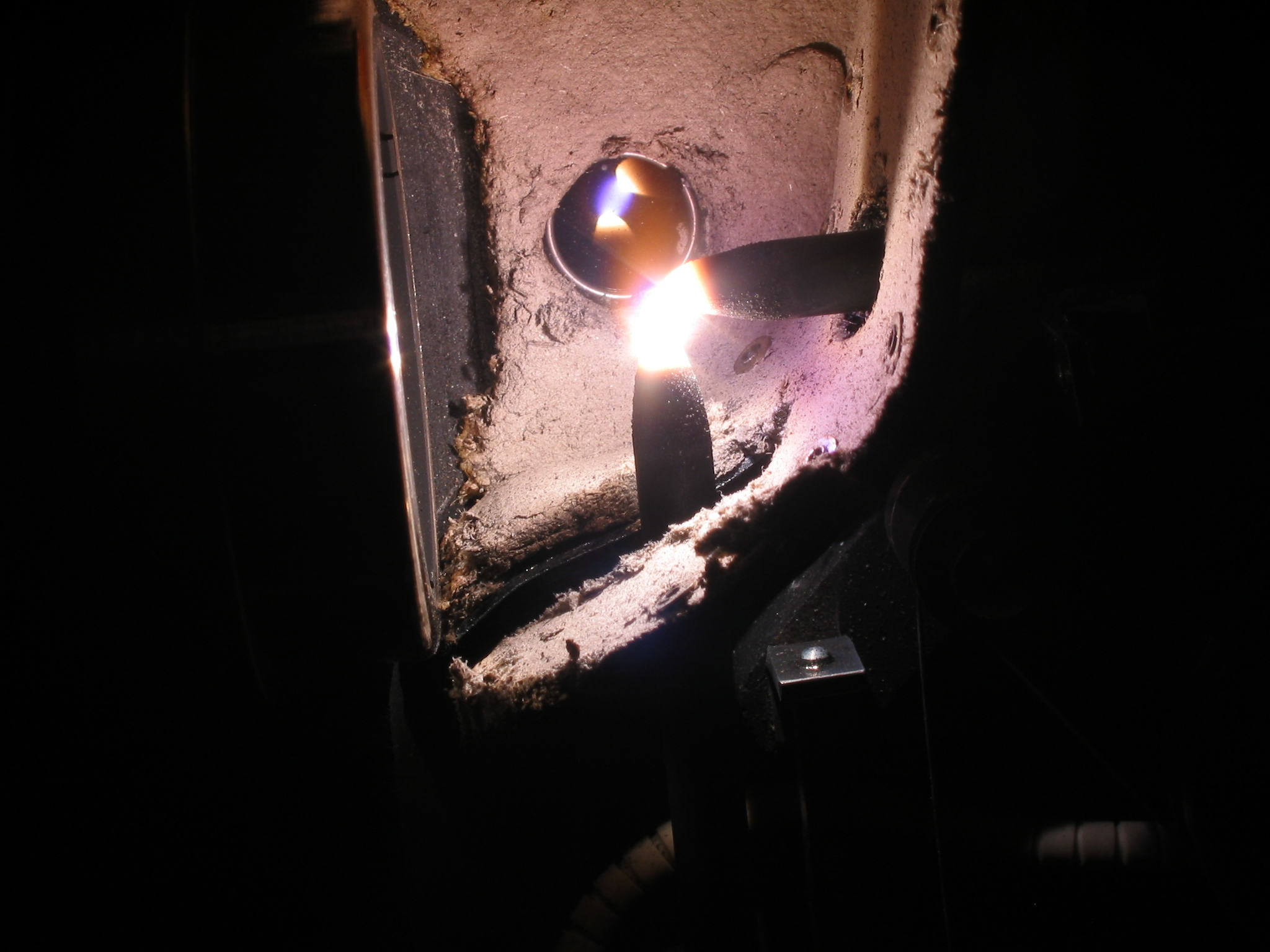 An electric arc in an arc lamp